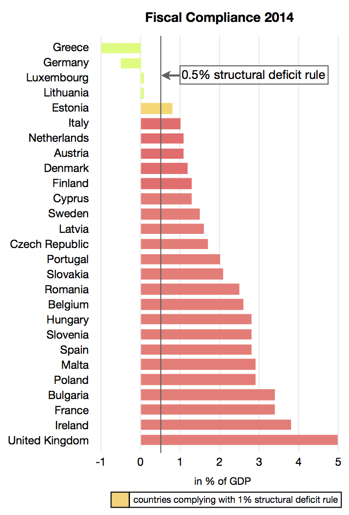 The compliance of the governments financial budget (structural deficit) with the strict criteria defined by the Fiscal Compact for each of the EU member states, as laid out in this table. The figures all origin from the economic (winter) forecast published by the European Commission in 2013.